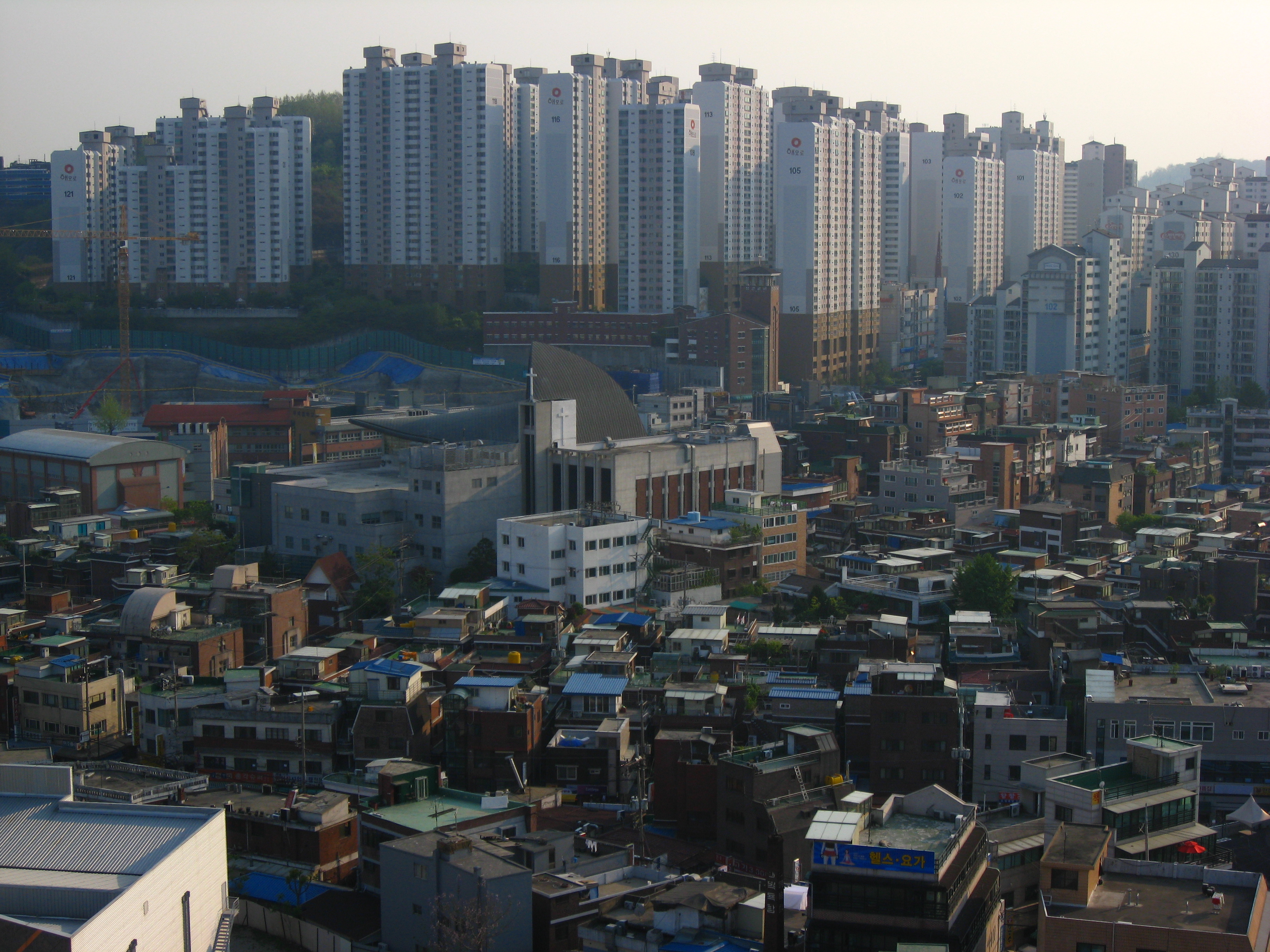 These clusters of identical apartment buildings are commonplace in Korea, but I've never really seen anything like it anywhere else. Sometimes there are as many as twenty 30-storey buildings in a cluster.